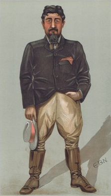 Caricature of Gen C de Wet.